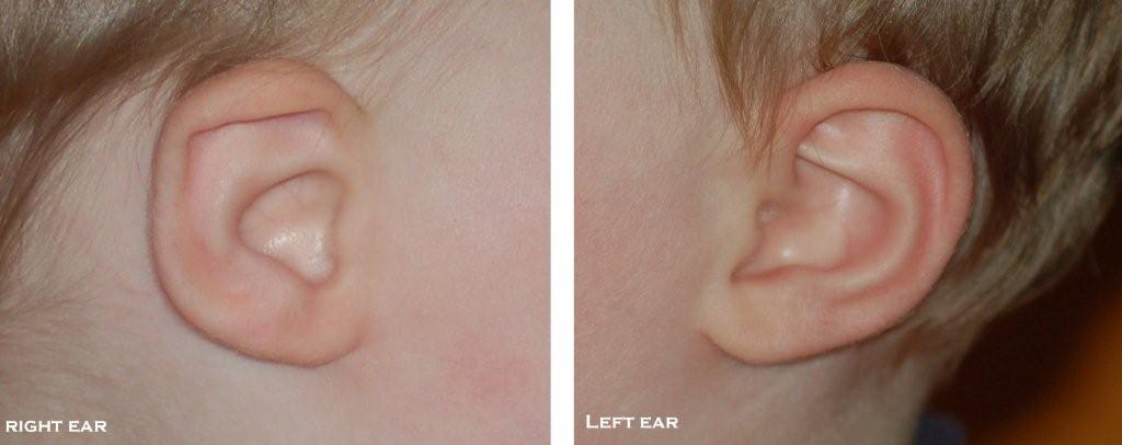 13 month child with BOR Syndrome. Right ear affected